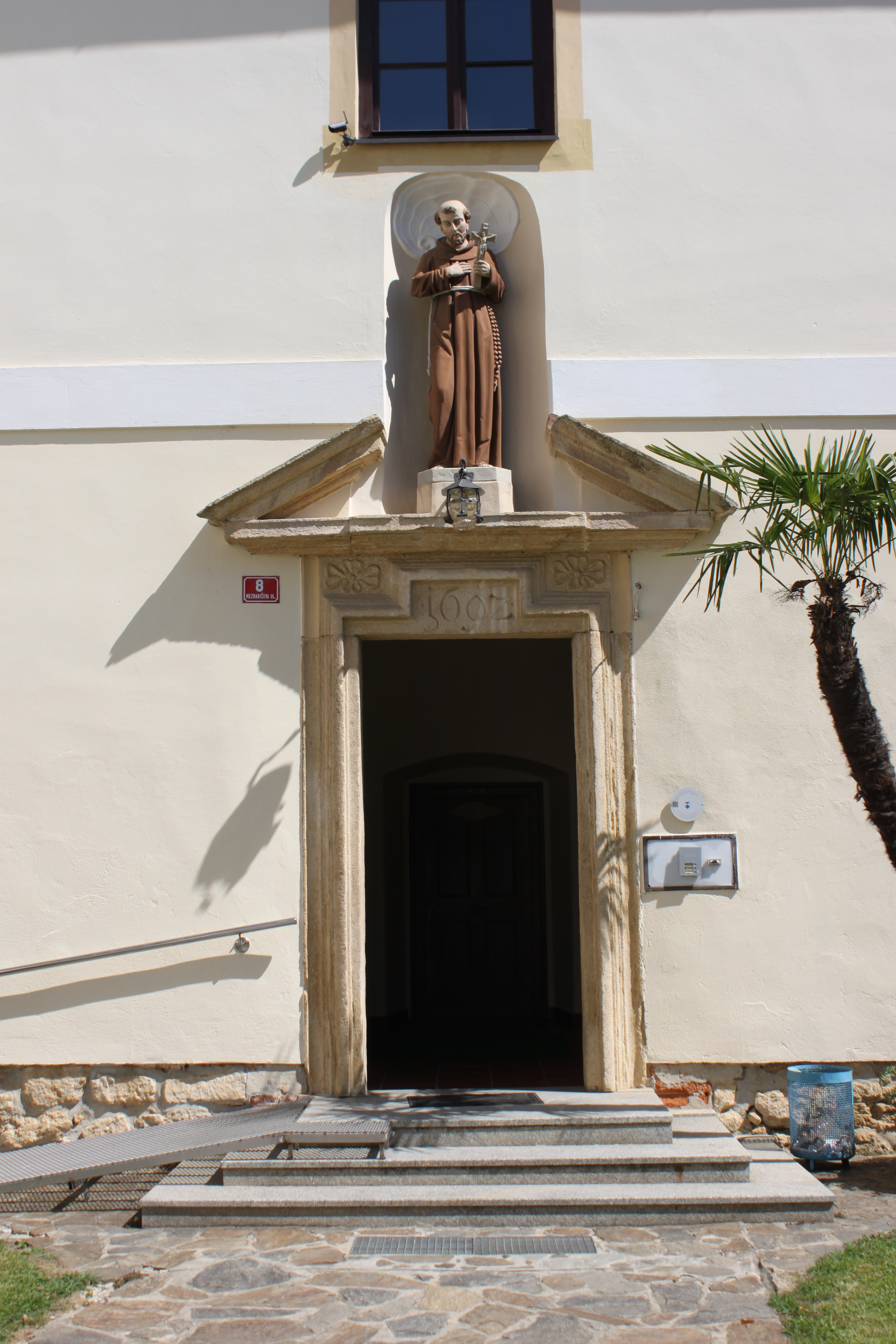 Main entrance of the Franciscan monastery Holy Trinity in Heilige Dreifaltigkeit in den Windischen Büheln (Sveta Trojica v Slovenskih Goricah), Slovenia